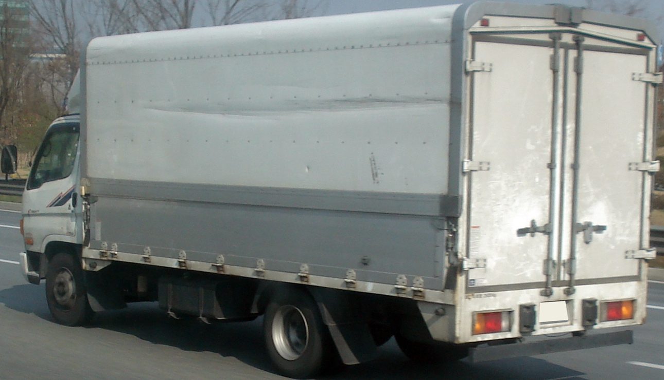 Hyundai e-Mighty